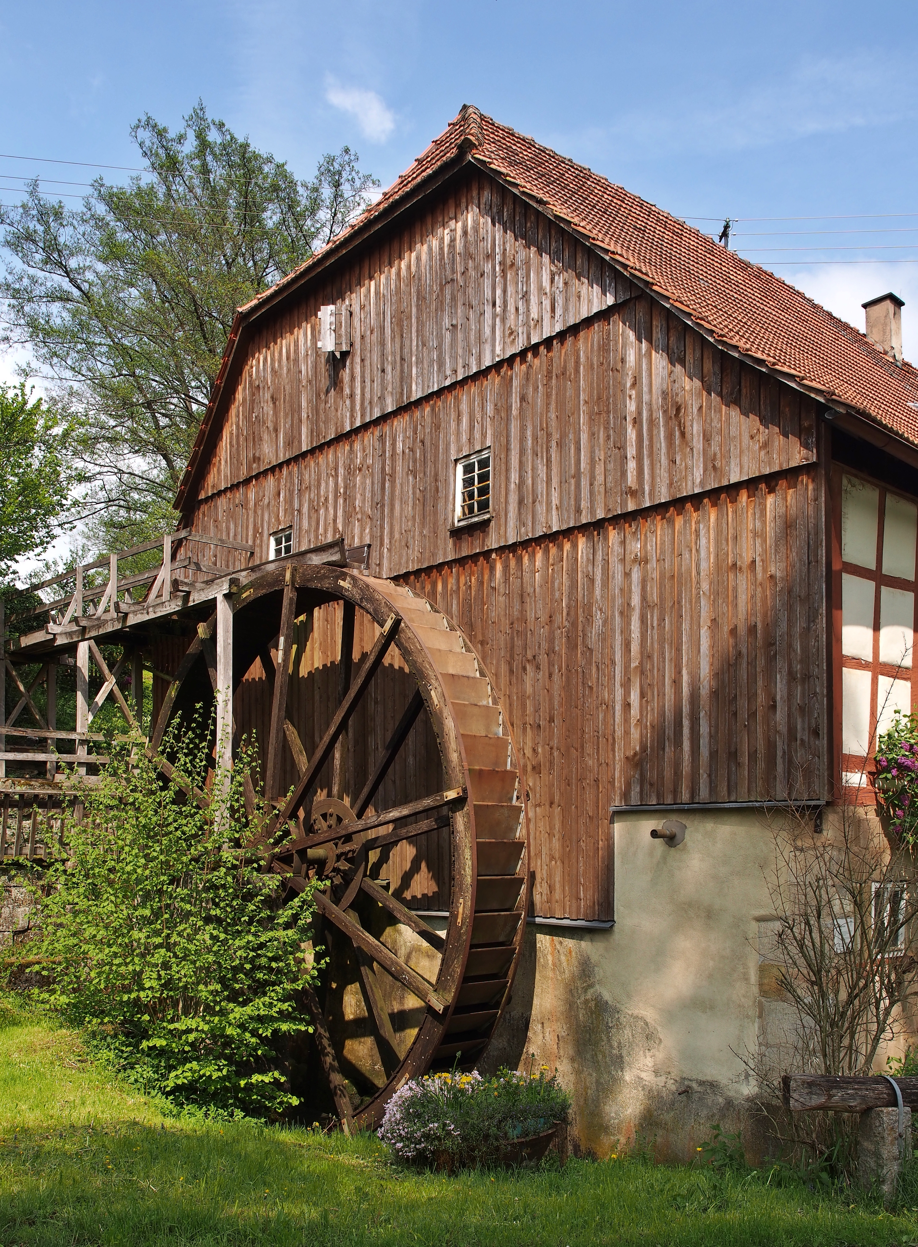 Historic water wheel at Meuschenmühle, Welzheim, Germany